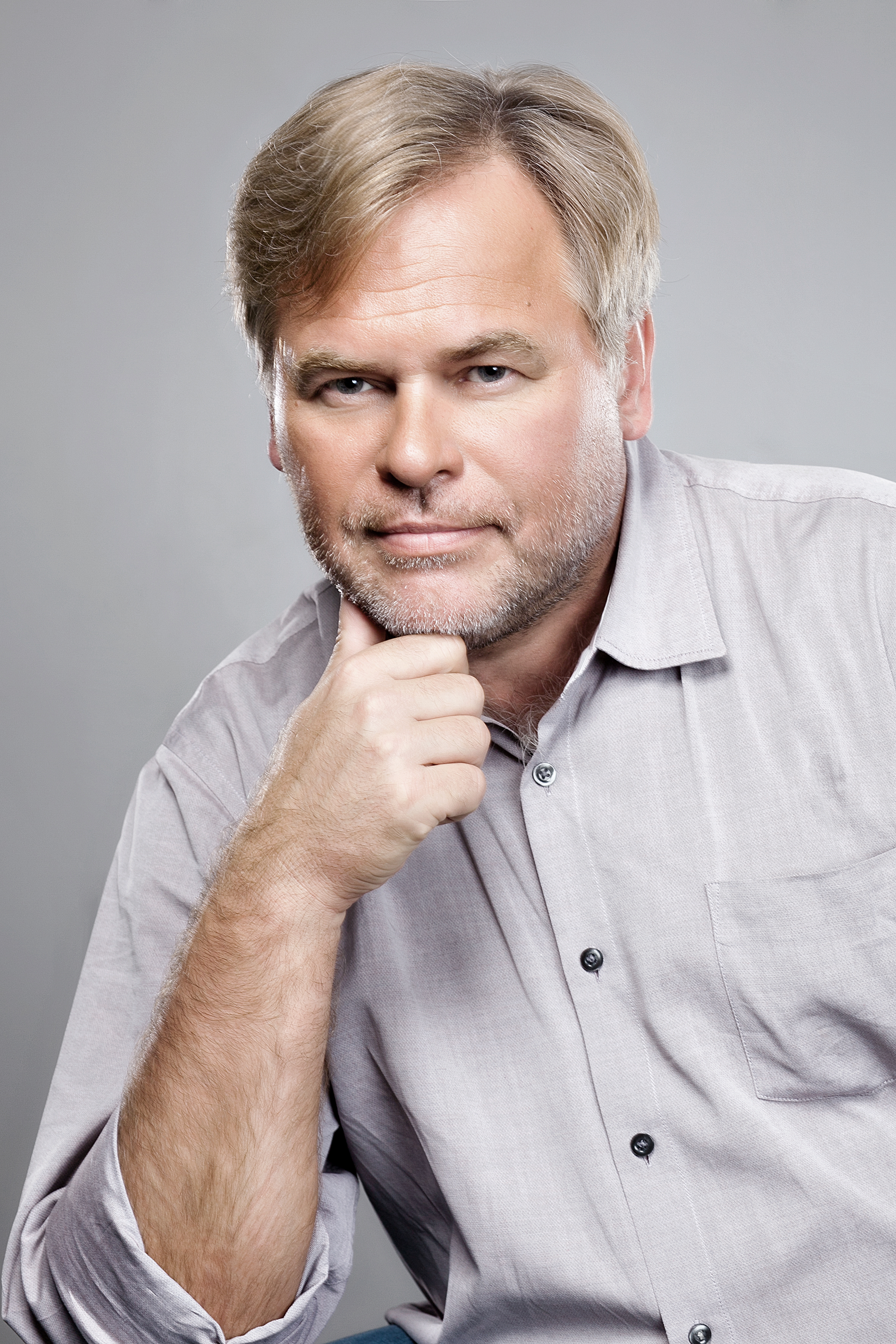 Eugene Kaspersky - Kaspersky Lab Founder